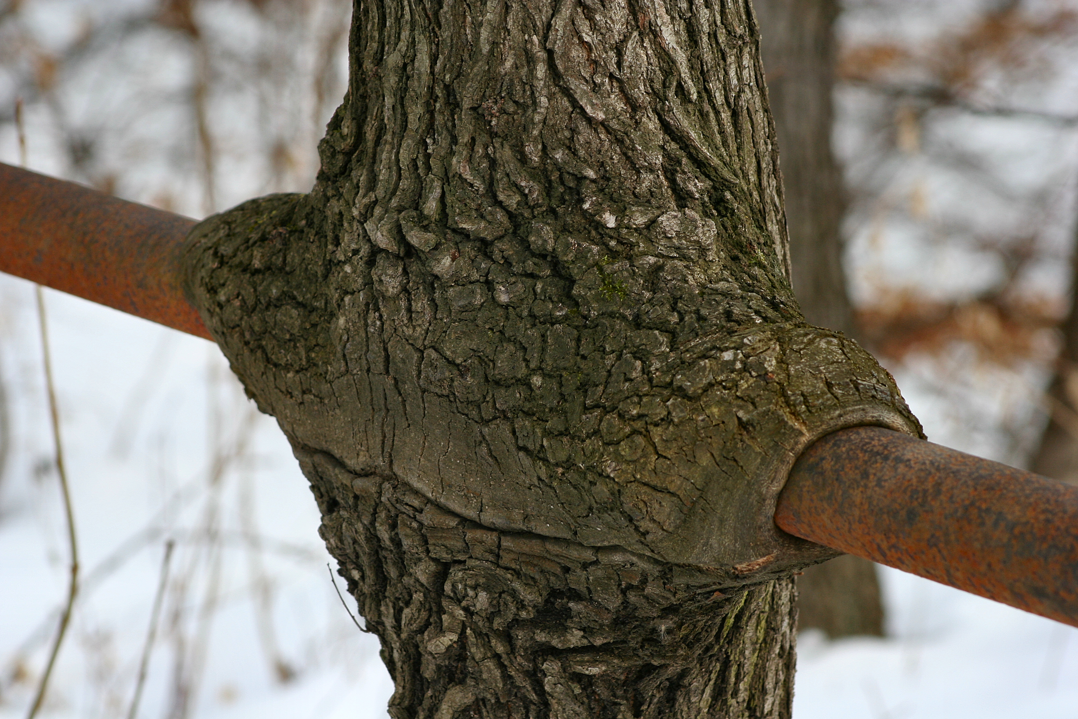 Foreign body in tree trunk.